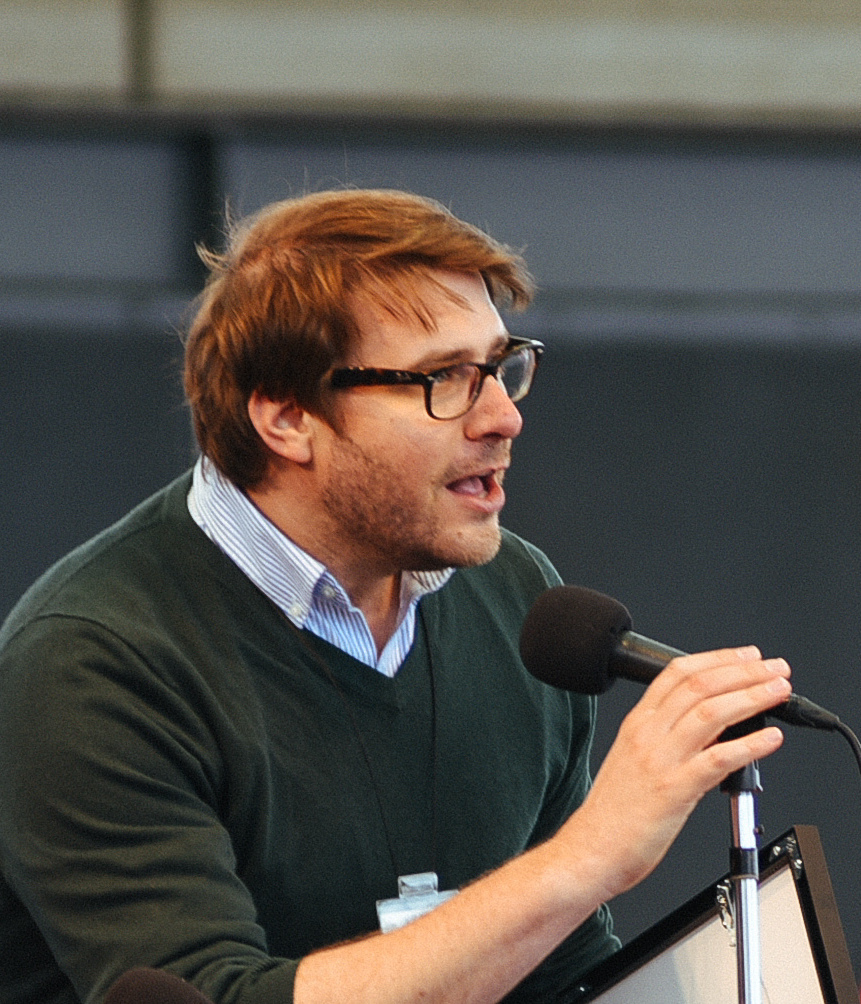 Jonathan Auxier delivers a speech upon winning the 2015 Silver birch Fiction Award.